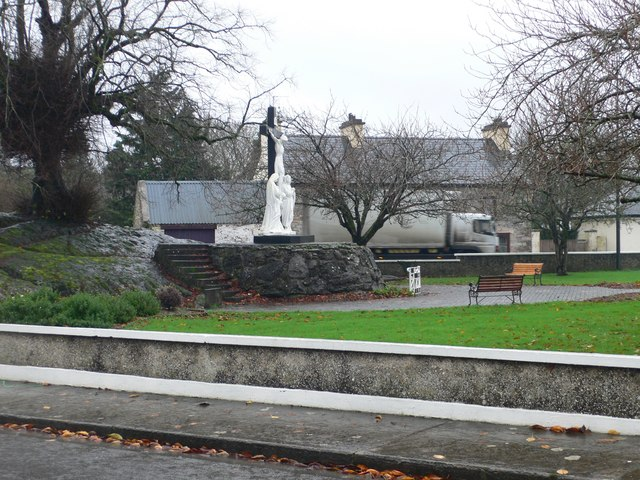 Tuamgraney Garden of Remembrance, near to Tomgraney, an Scairbh and Raheen Bridge, Clare, Ireland. The Memorial Park provides a perfect focal point at the heart of the village of Tuamgraney.